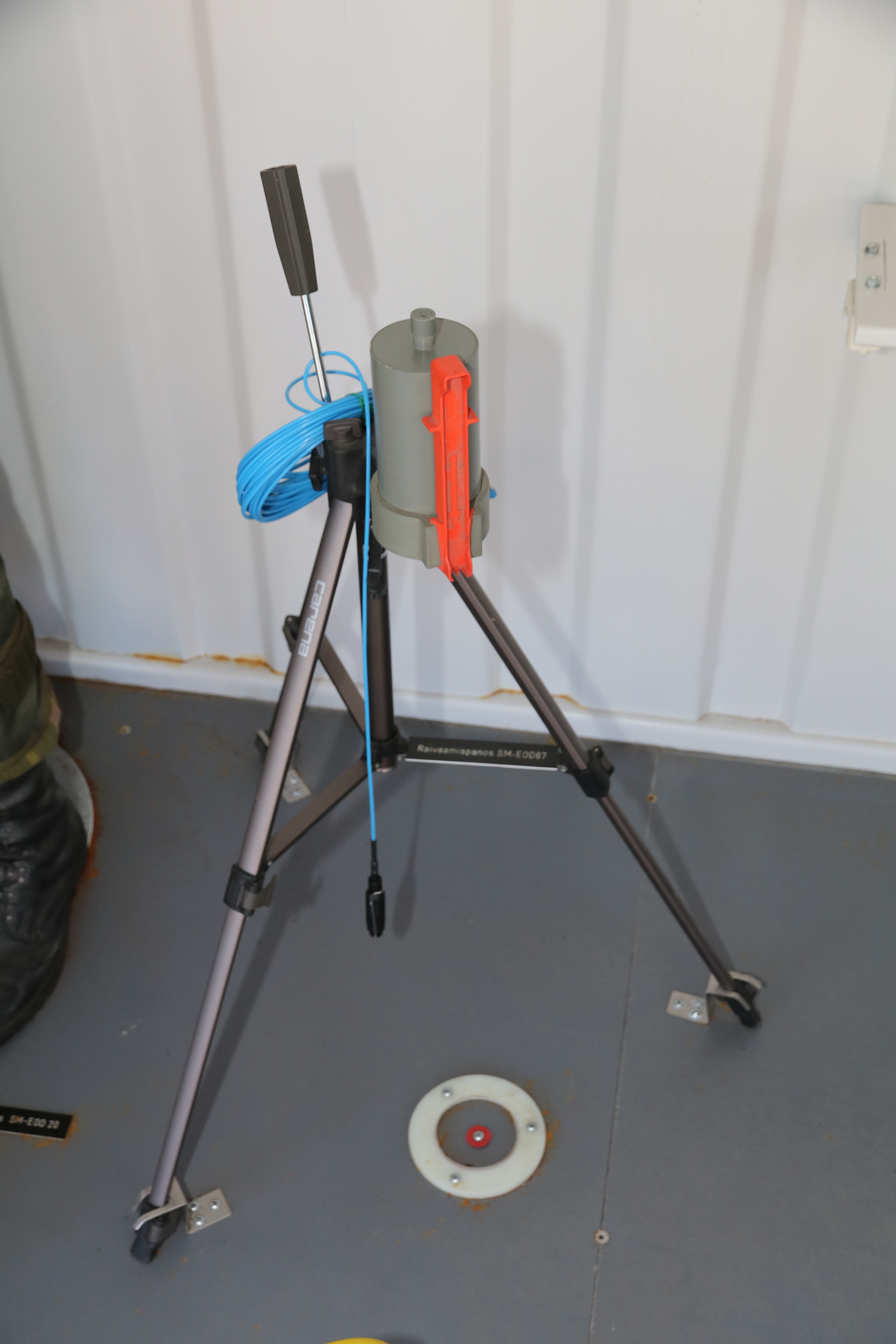 Finnish defence forces flag day 2017 equipment exhibition: SM-EOD67 hollow charge for clearing unexploded ordance or mines.